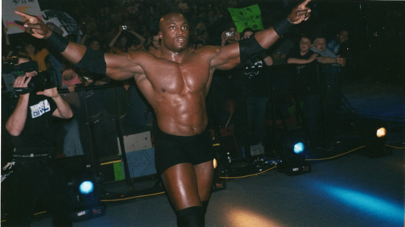 Bobby Lashey at SD! in Green Bay, WI. Sometime in 2006, I don't remember when exactly.